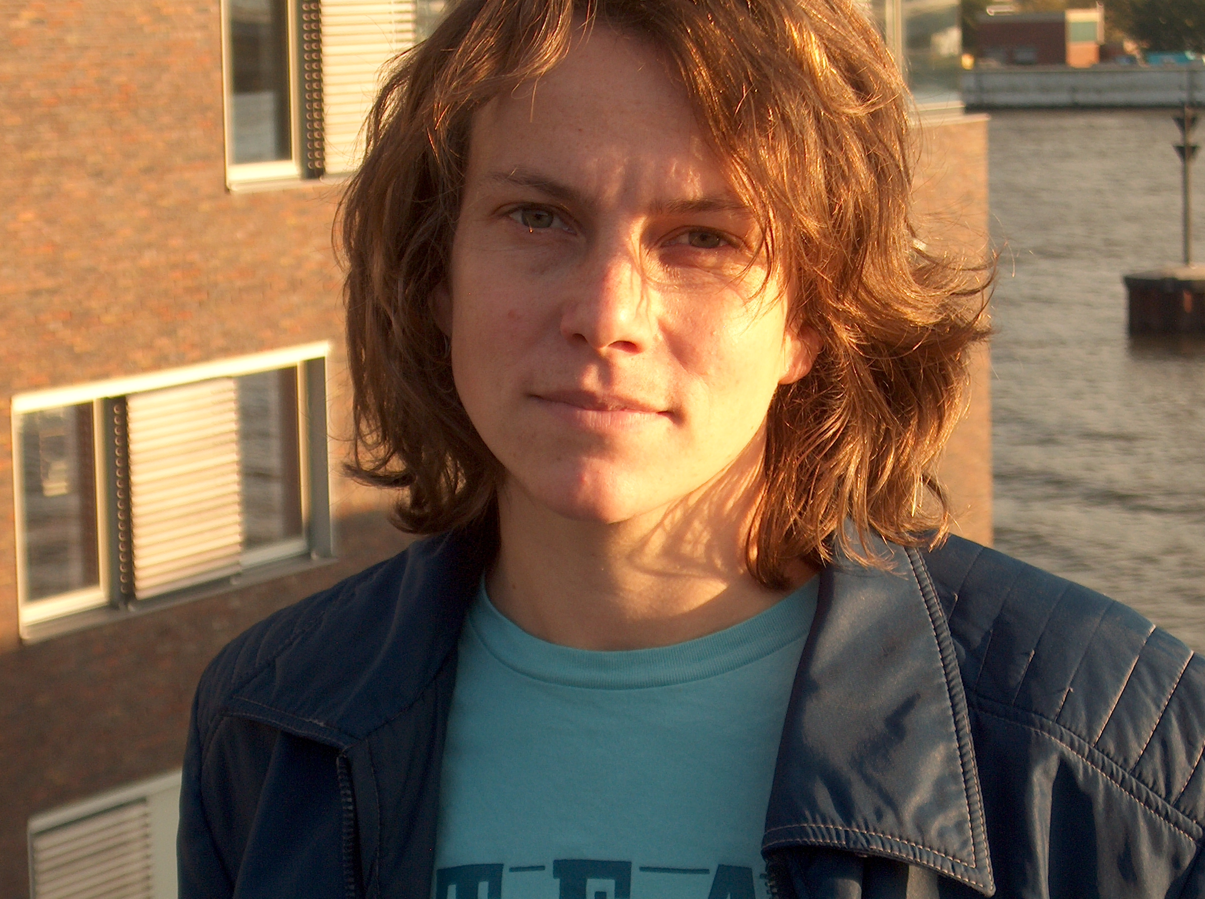 Tanja Schwarz, german Author